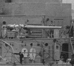 Photograph clip showing 5-inch 51 caliber gun on the starboard forecastle of battleship USS Texas (BB-35).